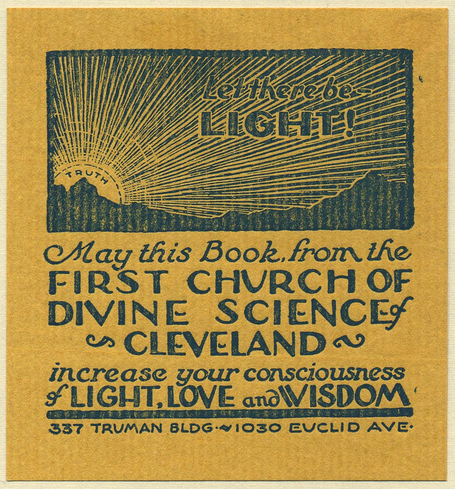 A bookplate from the 1st Church of Divine Science, Cleveland, provisionally dated from the early 20th century